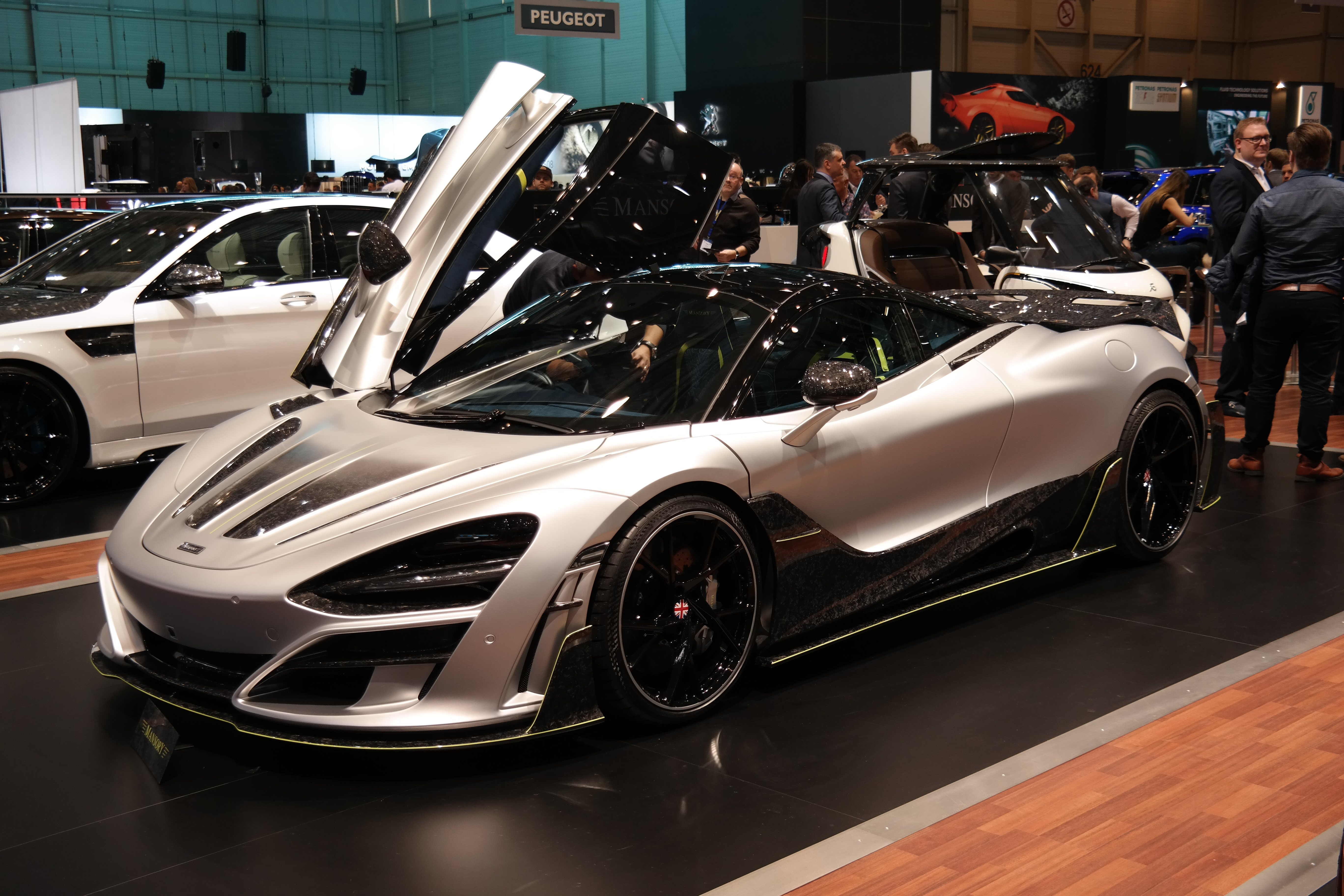 Geneva Motor Show 2018 (photo taken on the first press day)